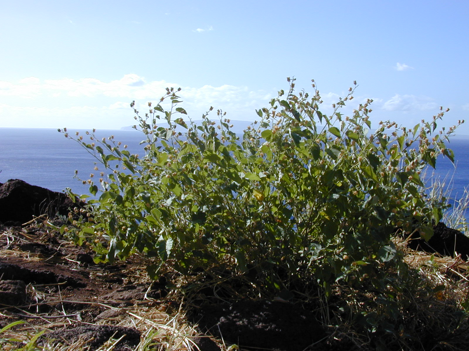 Abutilon incanum (habit). Location: Maui, Lahaina Pali Trail